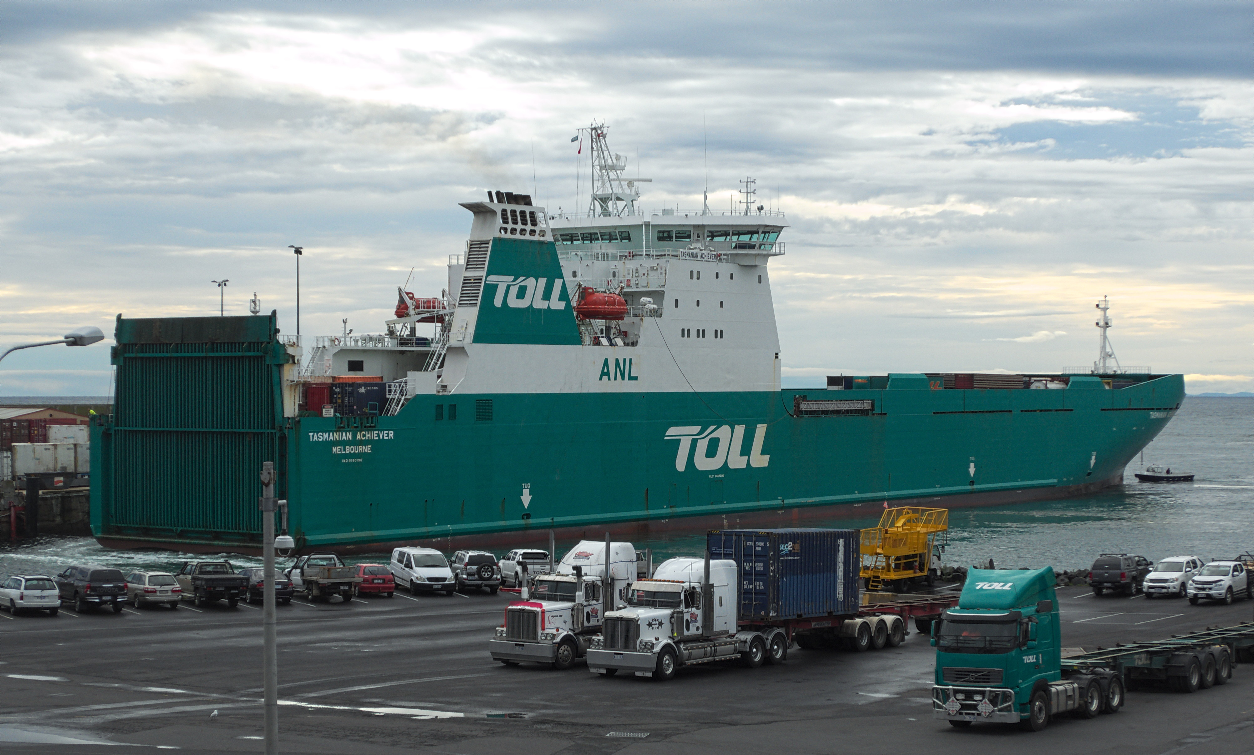 Toll ship Tasmanian Achiever berthing at the Port of Burnie.